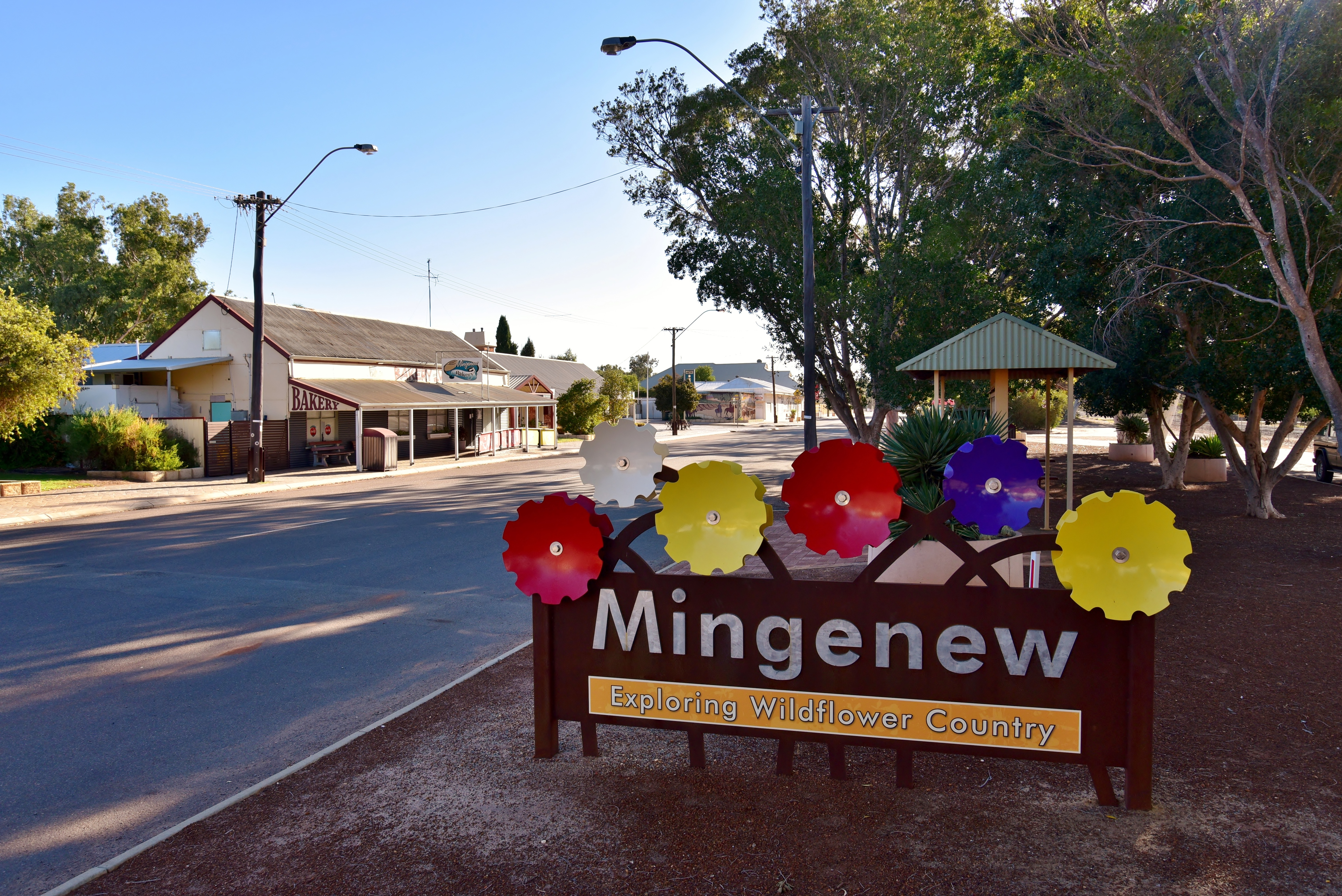 View of Midlands Road, Mingenew, Western Australia